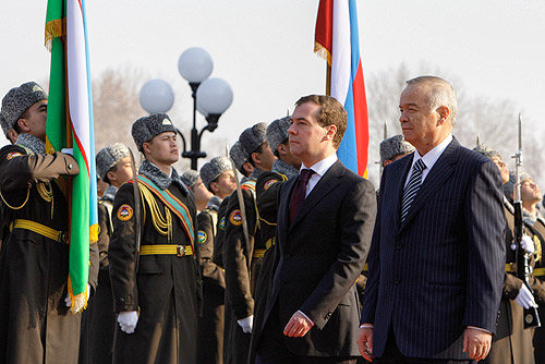 TASHKENT. Official welcome ceremony. With President of Uzbekistan Islam Karimov.